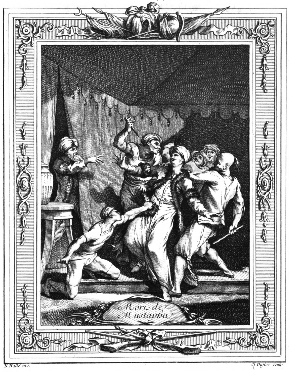 European depiction of the execution of Prince Mustafa b. Suleiman. Engraving by Cl. Duflos after a design by N. Hallé.